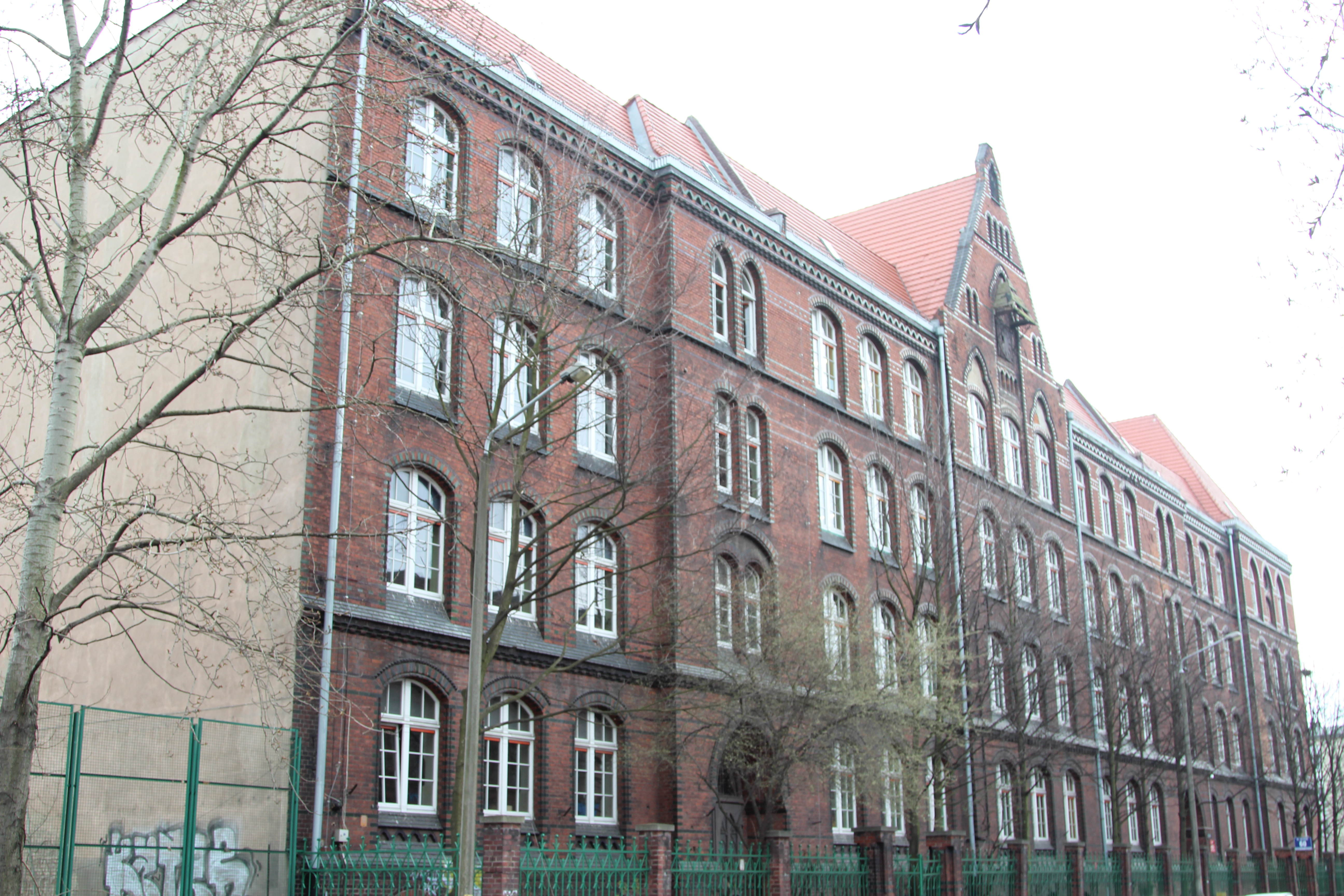 17th LO in Wroclaw